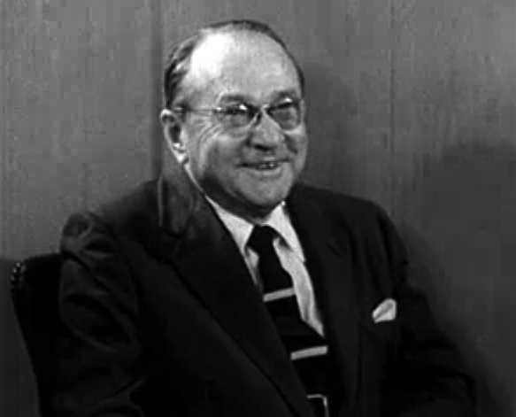 Screenshot of Vladimir K. Zworykin from the documentary film the Story of Television